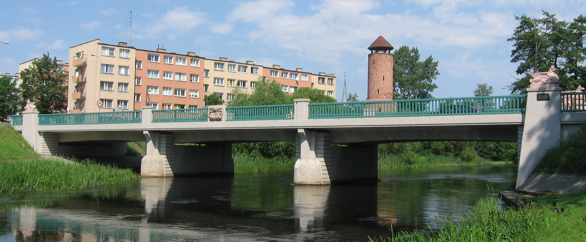 Bridge over Rega river in Gryfice, Poland